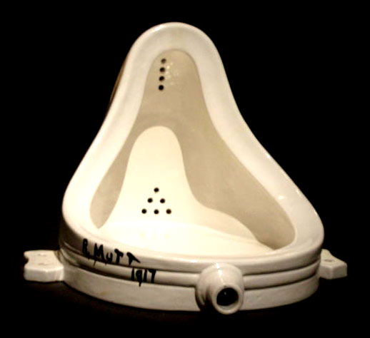 3rd replica of Fountain by Marcel Duchamp, 1964, galerie Schwarz